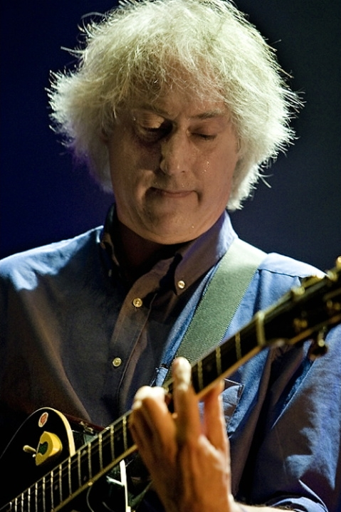 Peter Blegvad with the Peter Blegvad Trio performing at a Rock in Opposition Festival in Southern France in April 2007.